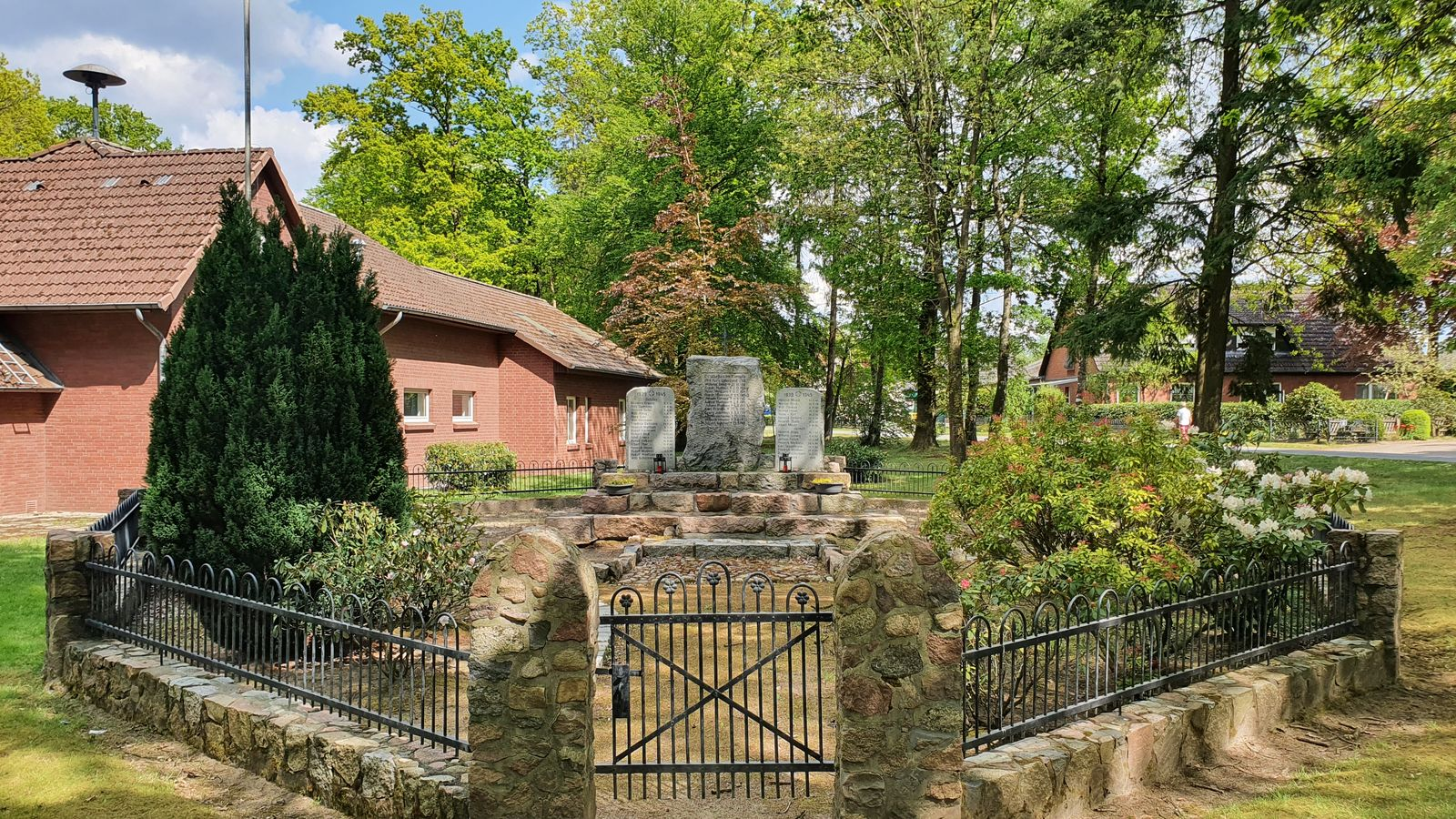 War memorial Dohren